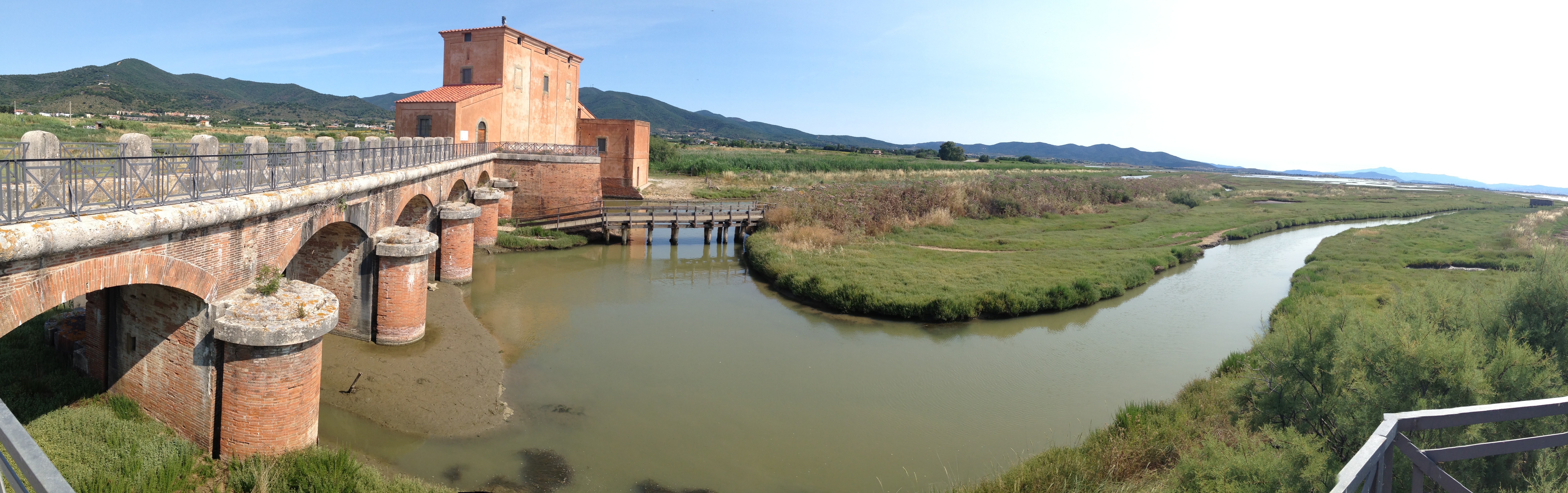 A panoramic view of the eastern side of Casa Rossa Ximenes and the Diaccia Botrona wetland in Castiglione della Pescaia, Italy.